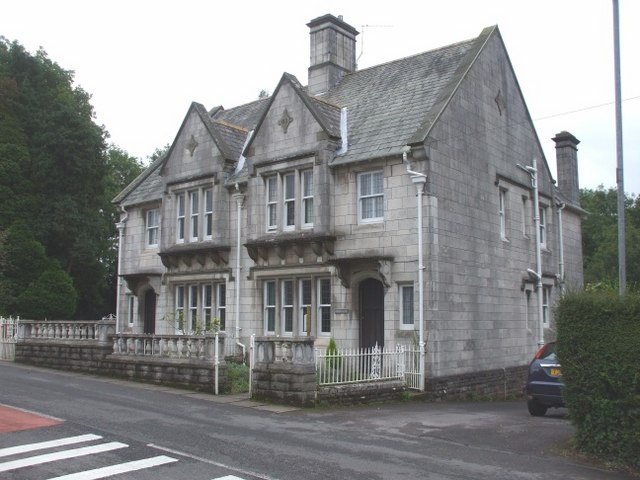 Carn Ingli is on the left, Cerrig Llwyd is on the right, Lisvane Road, Lisvane, Cardiff